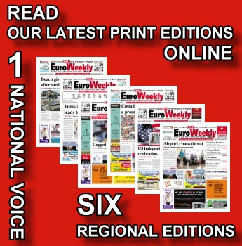 The image shows the different regional issues distributed weekly in Spain